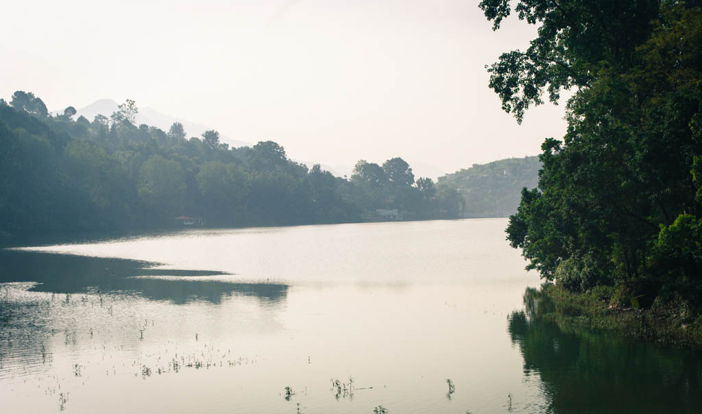 View of Bhimtaal lake in Uttarakhand, India.